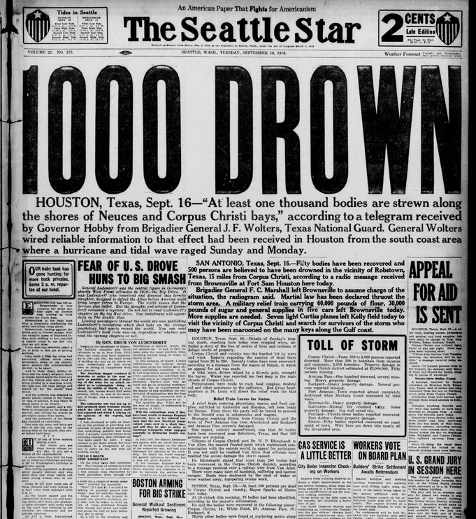 Houston, Texas: "At least one thousand bodies are strewn along the shores of Neuces and Corpus Christi bays" - September 16, 1919 Texas History